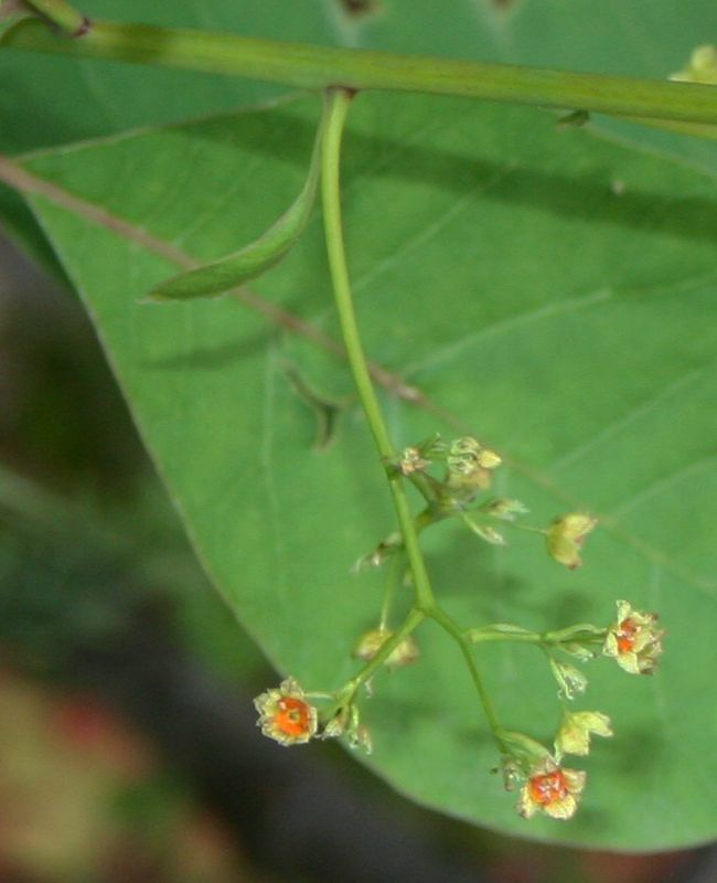 Cotinus coggygria, Sumachgewächse (Anacardiaceae) - Italien/Italia/Italy: Friuli-Venezia Giulia, Prov. Trieste, Sistiana, Rilkeweg/Sentiero Rilke